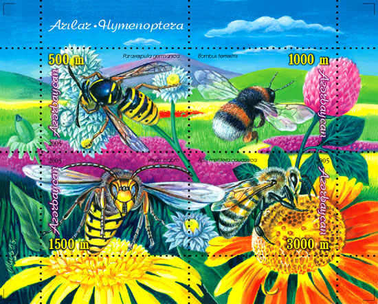 Stamp of Azerbaijan